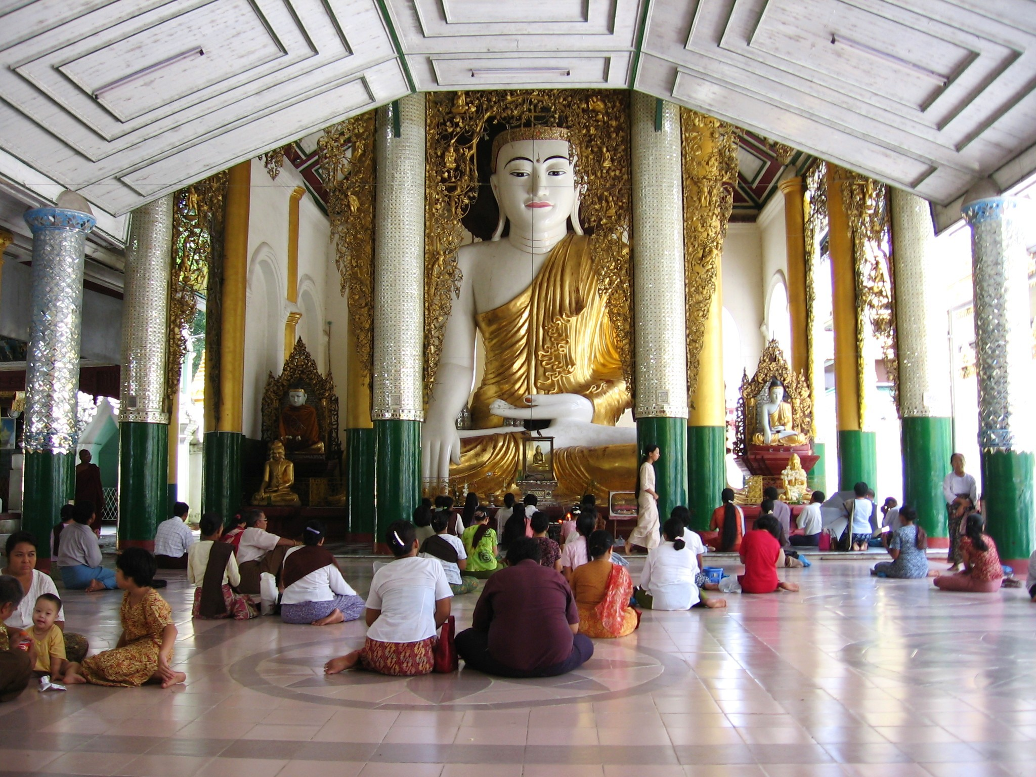 The Shwedagon Pagoda (officially titled Shwedagon Zedi Daw) is a 98-metre gilded stupa located in Yangon, Myanmar.